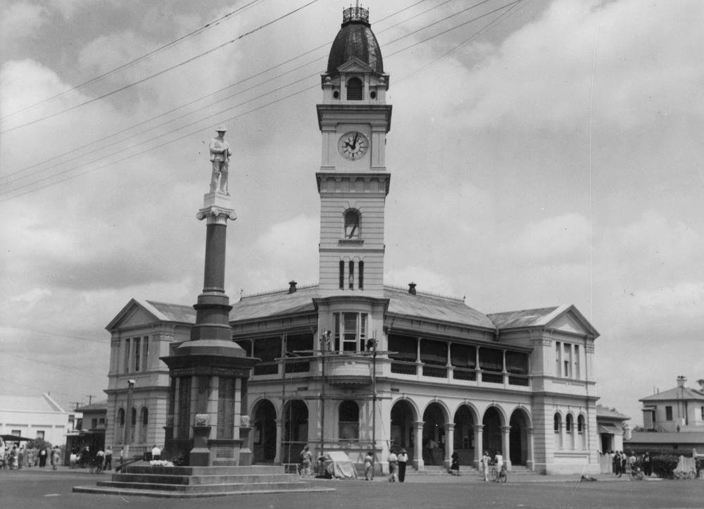 Bundaberg Post Office, 1948. Anzac monument is in the foreground.